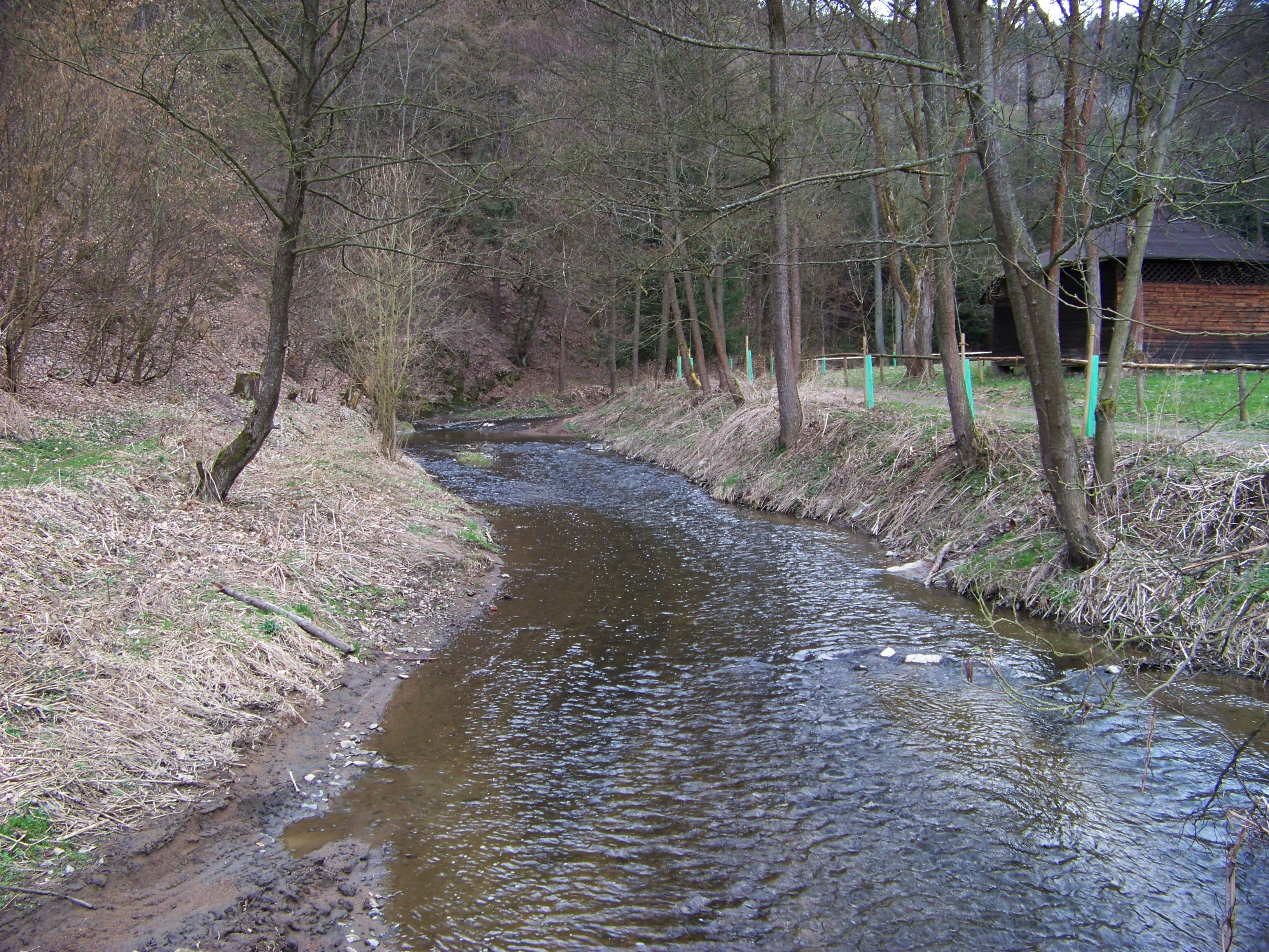 Čtyřkoly, Benešov District and Senohraby, Prague-East District, Central Bohemian Region, the Czech Republic. Mnichovka creek. - OpenStreetMap(Info)